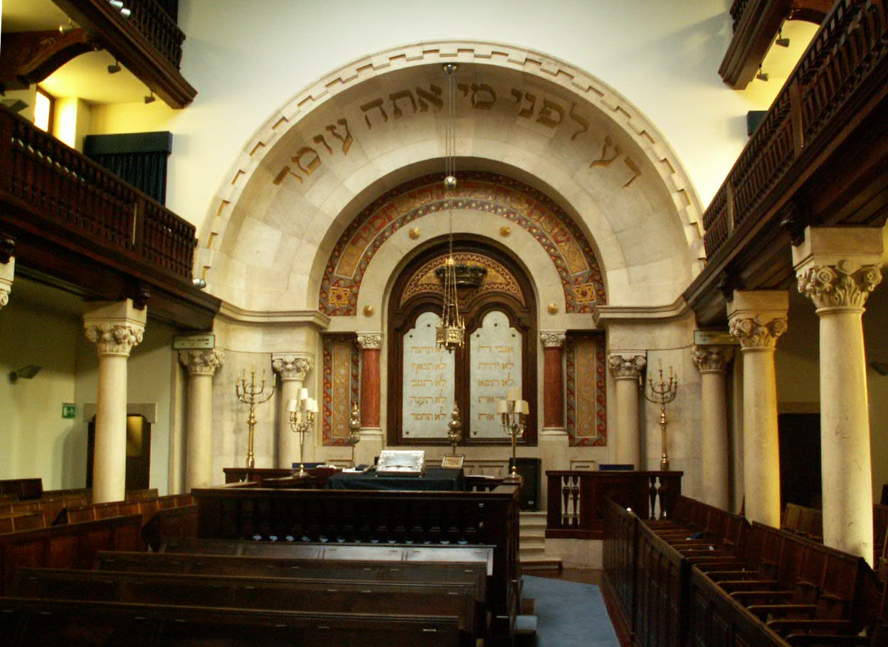 Shaarei Tikva, the synagogue of Lisbon, Portugal. Interior view from the ground flood.